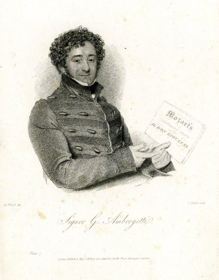 Portrait of basso buffo Giuseppe Ambrogetti, holding Mozart's score Don Giovanni. Print by Charles Picart after Abraham Wivell. Published in London, May 1. 1824, by Geo. Lawford, Saville Place, Burlington Gardens.